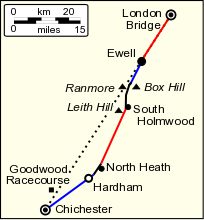 Map of Stane Street in south east England showing the four main limbs of its construction.